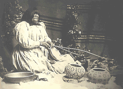 Dat So La Lee demonstrating basket weaving, 1900.